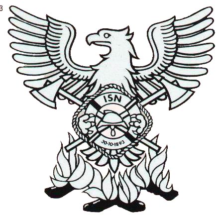 AHBVPA-Emblema03